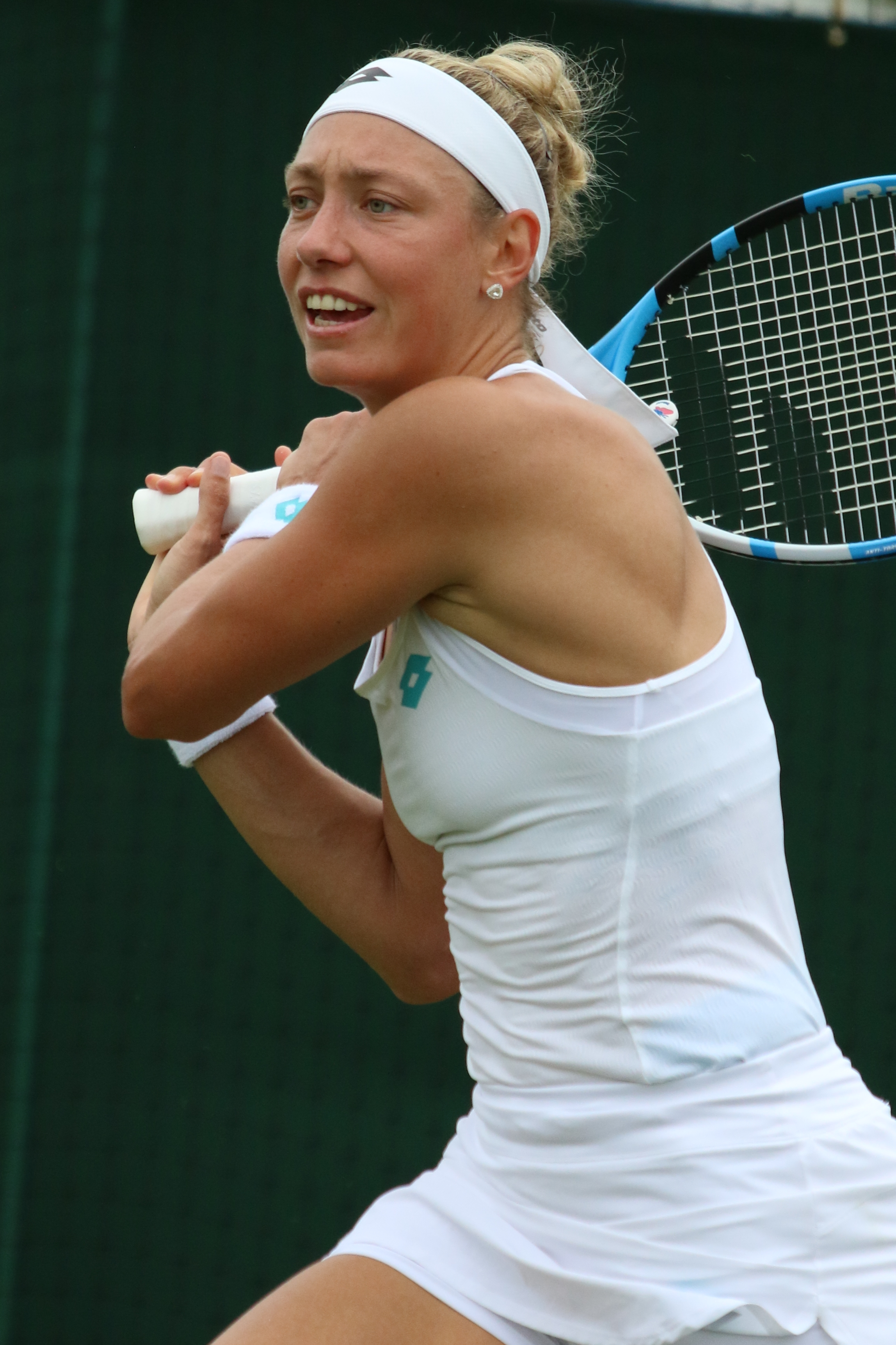 2019 Wimbledon Qualifying Tournament.